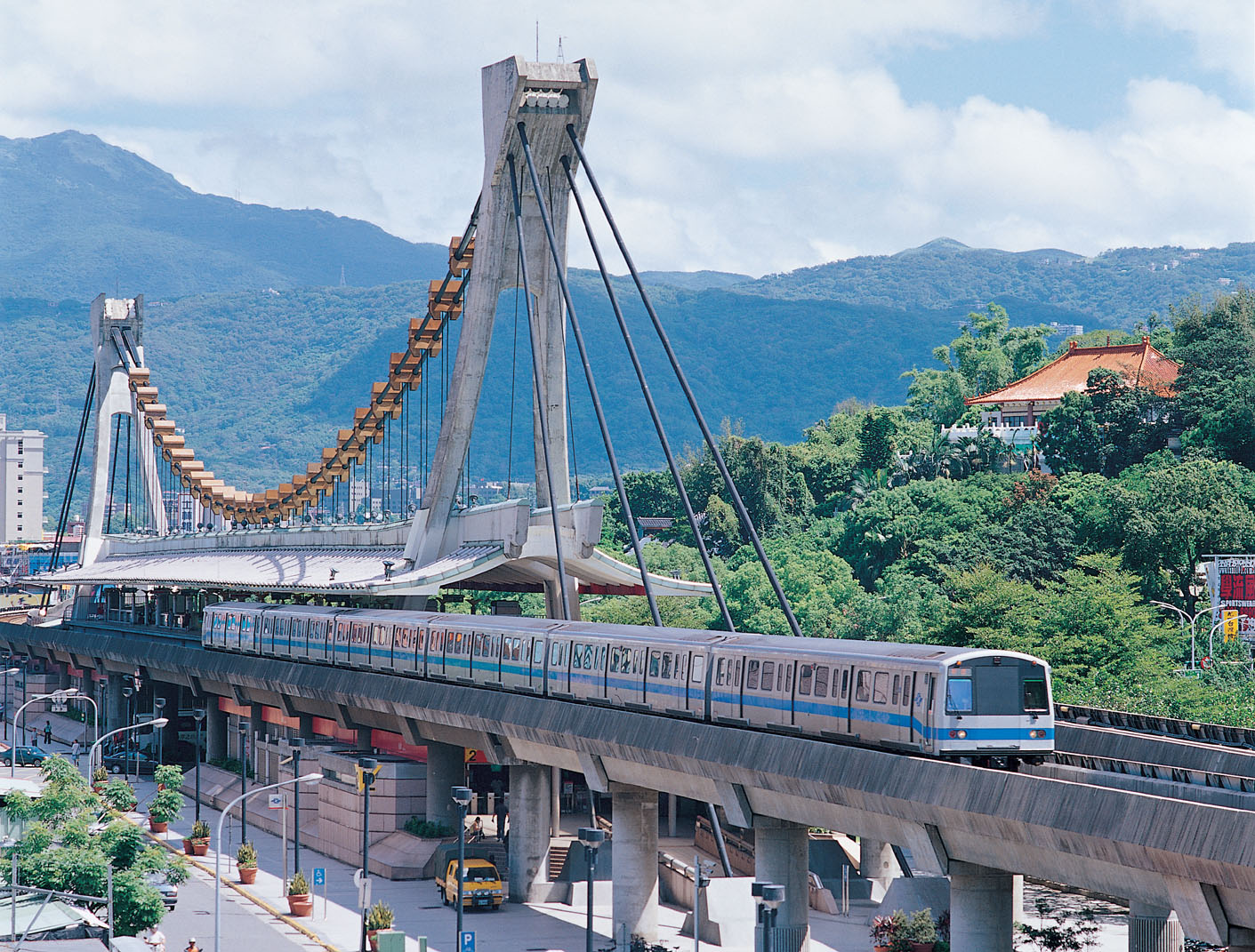 Taipei MRT Jiantan Station and C301 rolling stock.